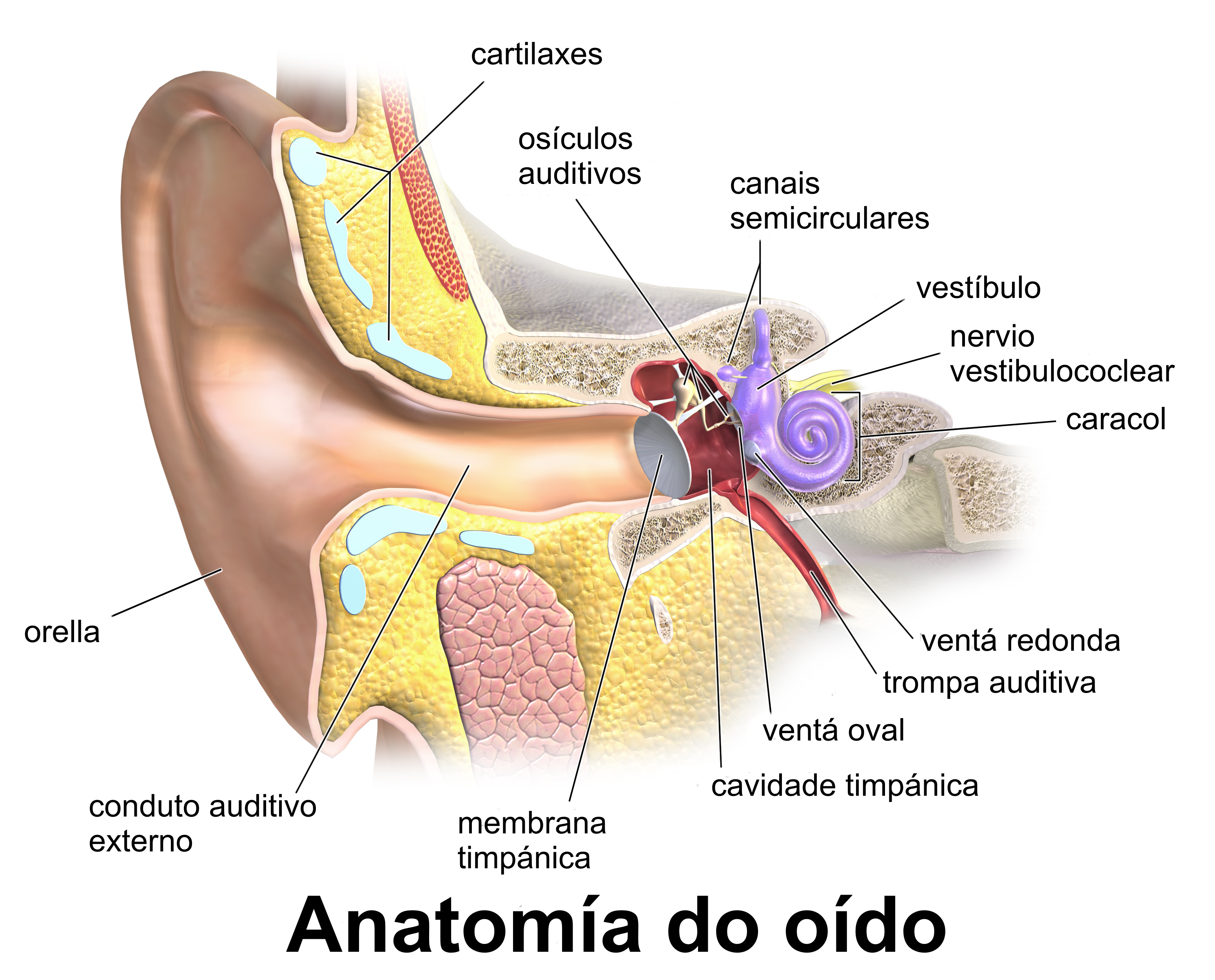 ear anatomyGalego: anatomía do oído